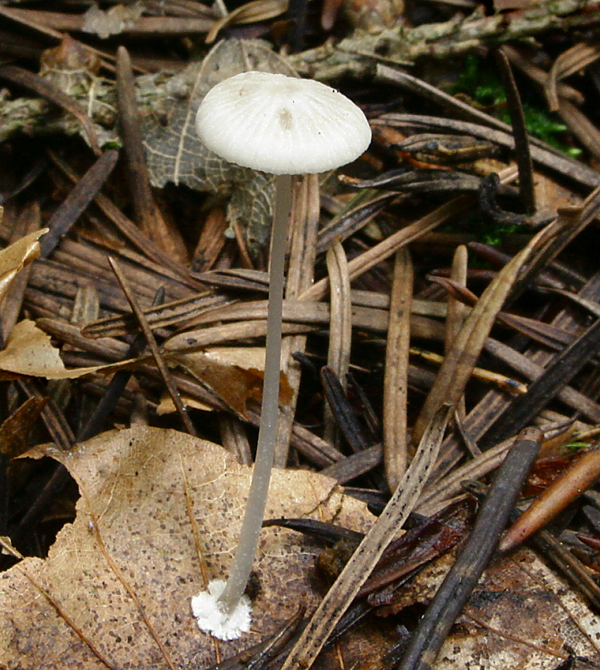 Mycena stylobates in a forest near Château-Chinon, France.